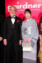 Yoshinori Ōsumi, Honorary Professor of Tokyo Institute of Technology, and Mariko Ōsumi, former Professor of the Faculty of Science and Engineering, Teikyo University of Science, met Kenjirō Monji, Ambassador to Canada, at Gairdner Foundation International Award Ceremony at the Royal Ontario Museum in Toronto City, Ontario Province on October 29, 2015.